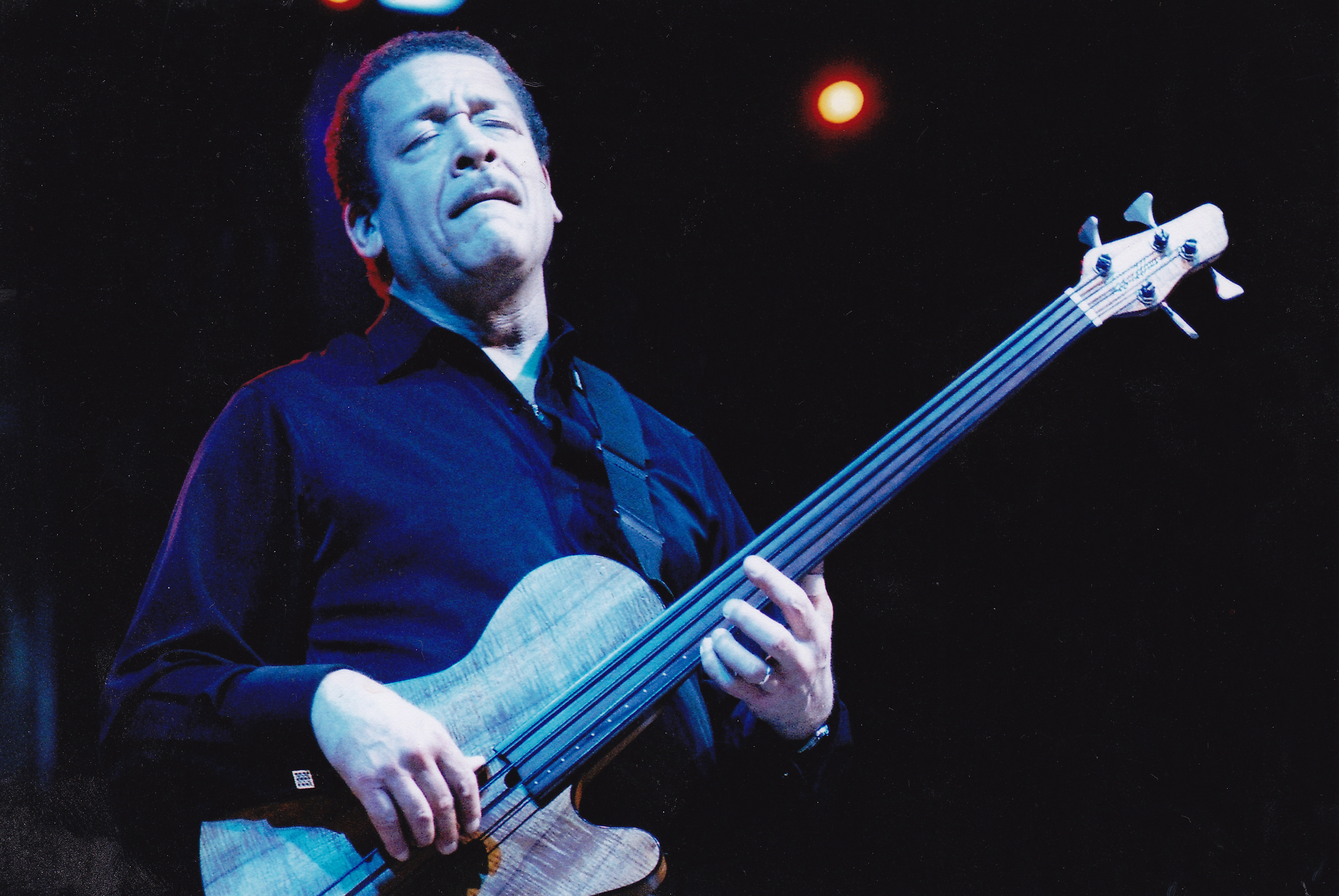 North Sea Jazz Festival - gift